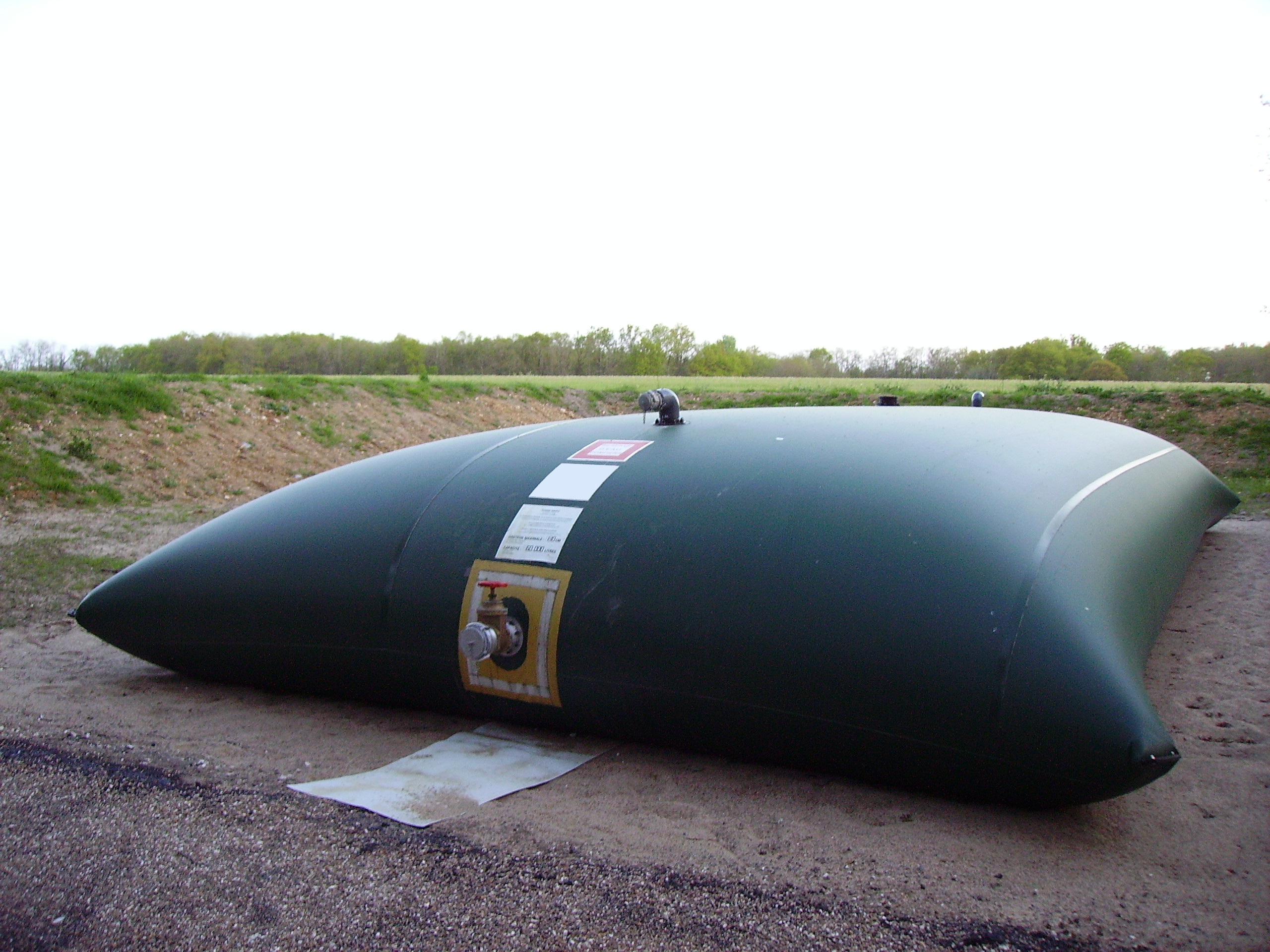 Flexible tank for fire protection. Capacity: 60,000 liters.